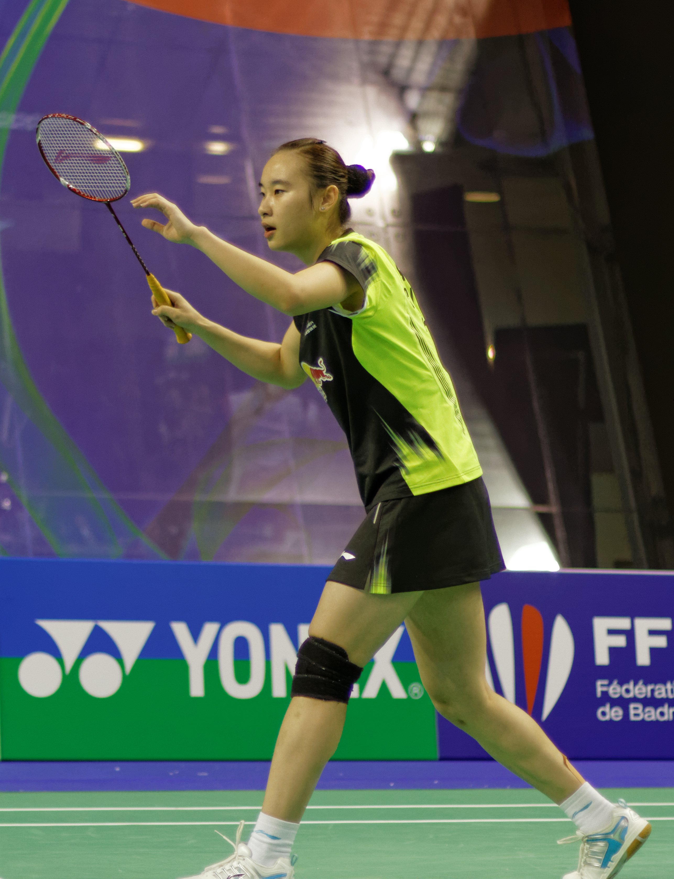 2013 French open. Women's doubles quarterfinal. Reika Kakiiwa and Miyuki Maeda vs Bao Yixin and Tang Jinhua.